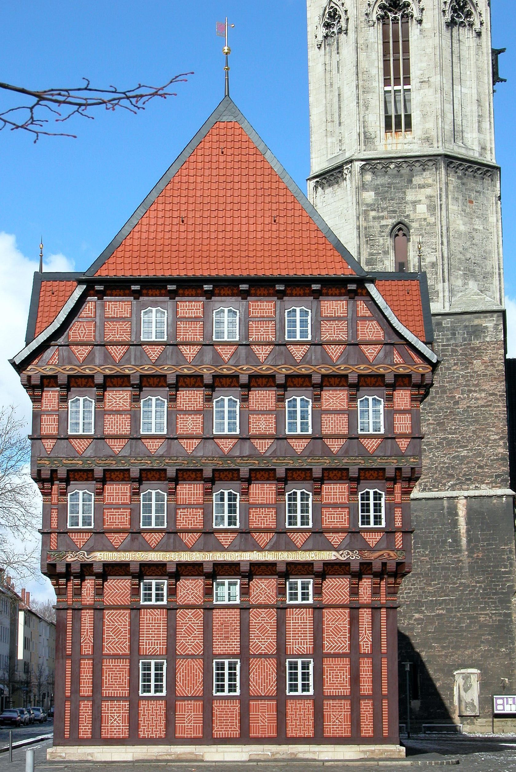 Brunswick, Germany: Alte Waage (Old Scale) as seen from the south, on the right hand side behind it, St. Andrew’s Church.